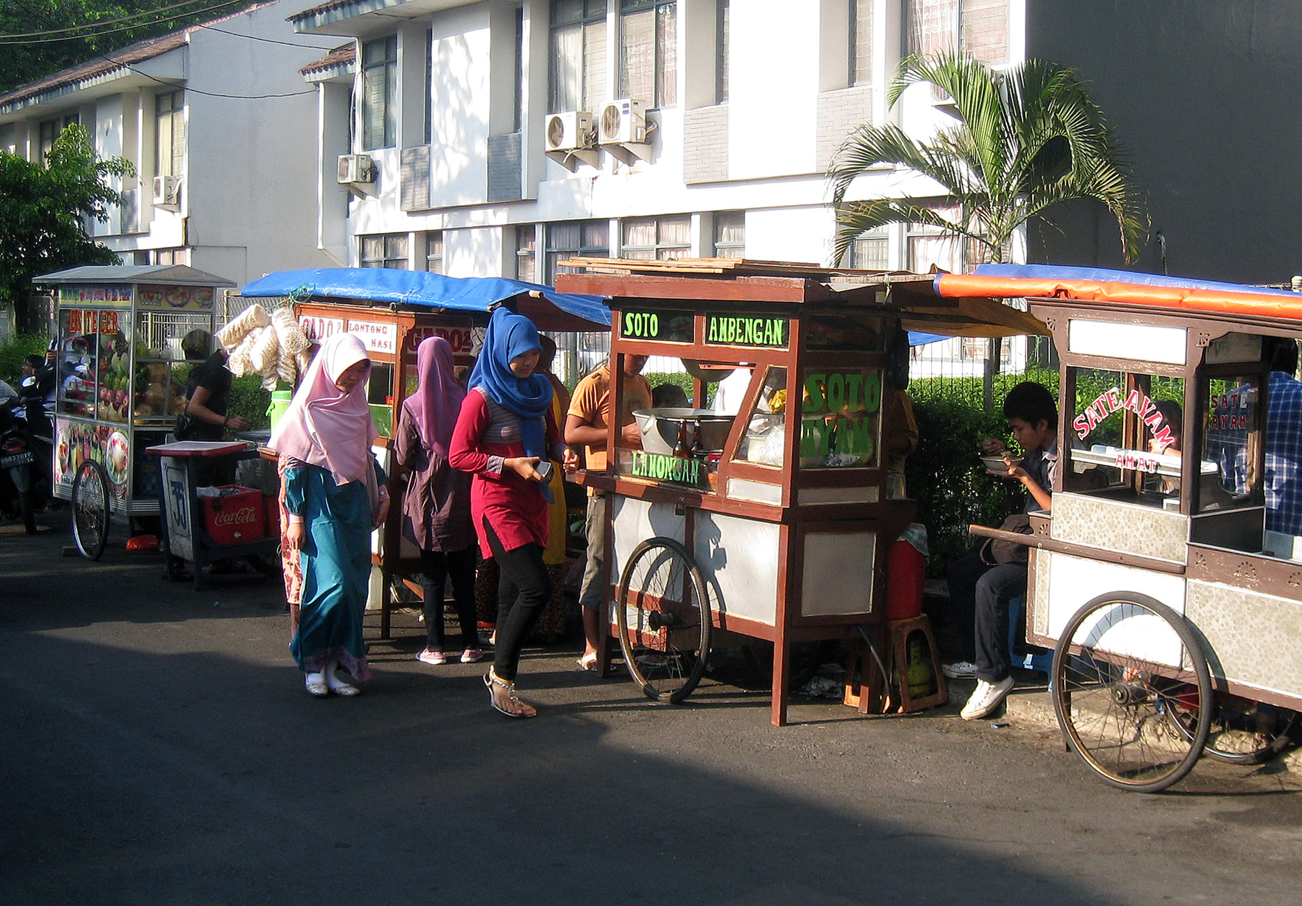 Kakilima (lit. five feet) street vendor carts in Jakarta, Indonesia, selling Indonesian typical dishes such as chicken satay, soto, gado-gado, and es teler.